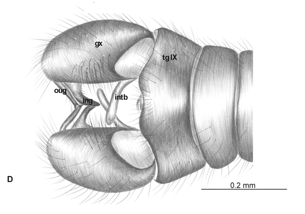 Fig 2. Elephantomyia (E.) bozenae sp. nov., No. MP/3338 (male), holotype: D. hypopygium, dorsal view; Abbreviations: male terminalia: gx—gonocoxite; ing—inner gonostylus; intb—interbase; oug—outer gonostylus.